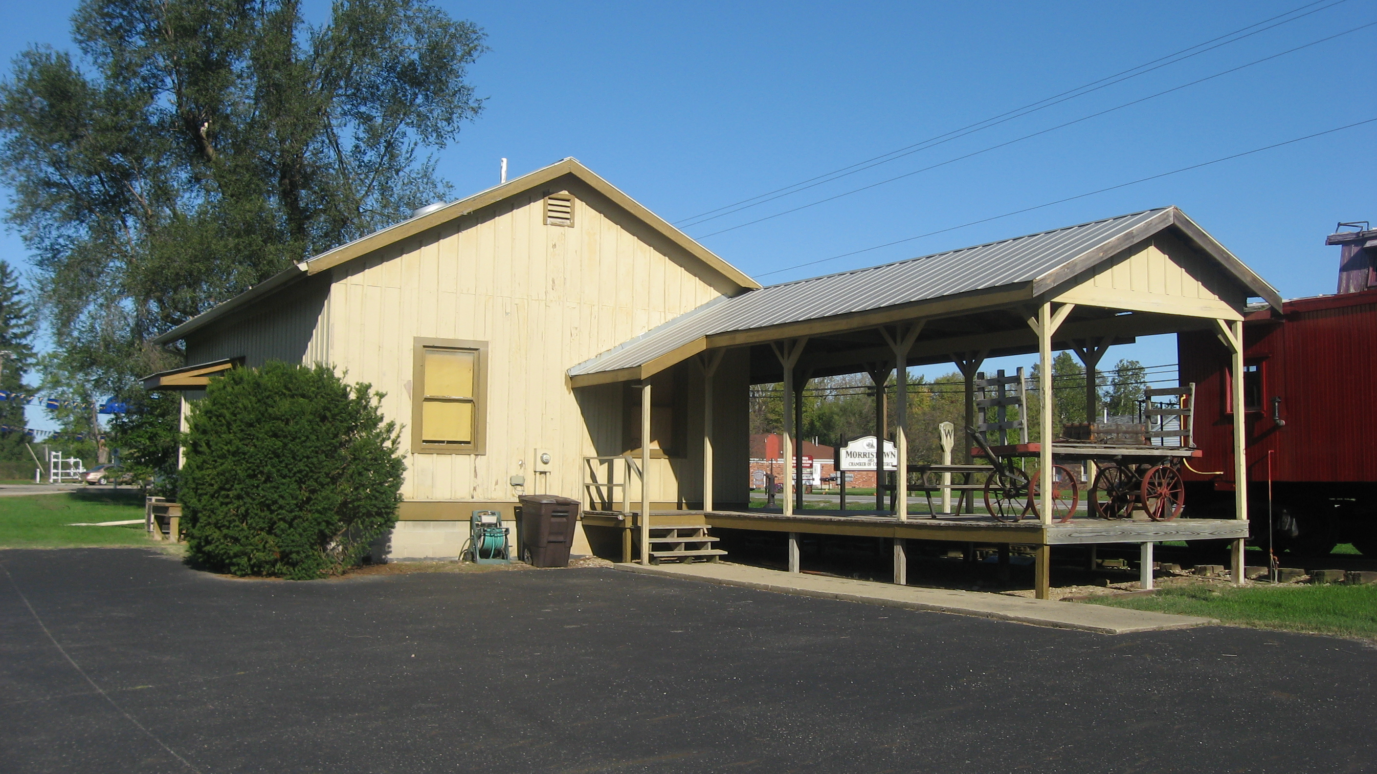 Eastern end and southern side of the Junction Railroad Depot, located at 425 W. Main Street (U.S. Route 52) in Morristown, Indiana, United States. Built in 1867, it is listed on the National Register of Historic Places.